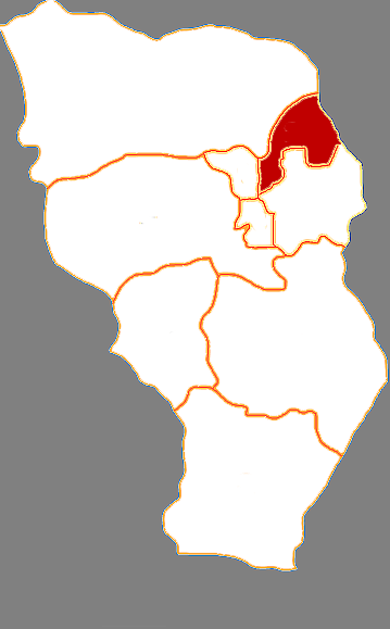 Locator map of Xincheng District in Hohhot City, Inner Mongolia, China